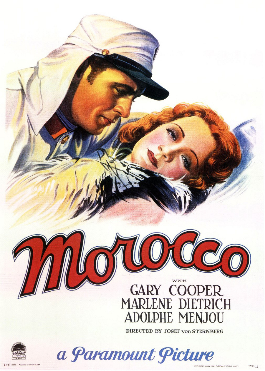 Poster for the 1930 film Morocco. The item has no copyright markings on it as can be seen in the links above. At bottom left is the Paramount logo, 1-B, 3050, and Country of origin USA. At bottom right is This poster leased from Paramount Publix Corp. and 44732.